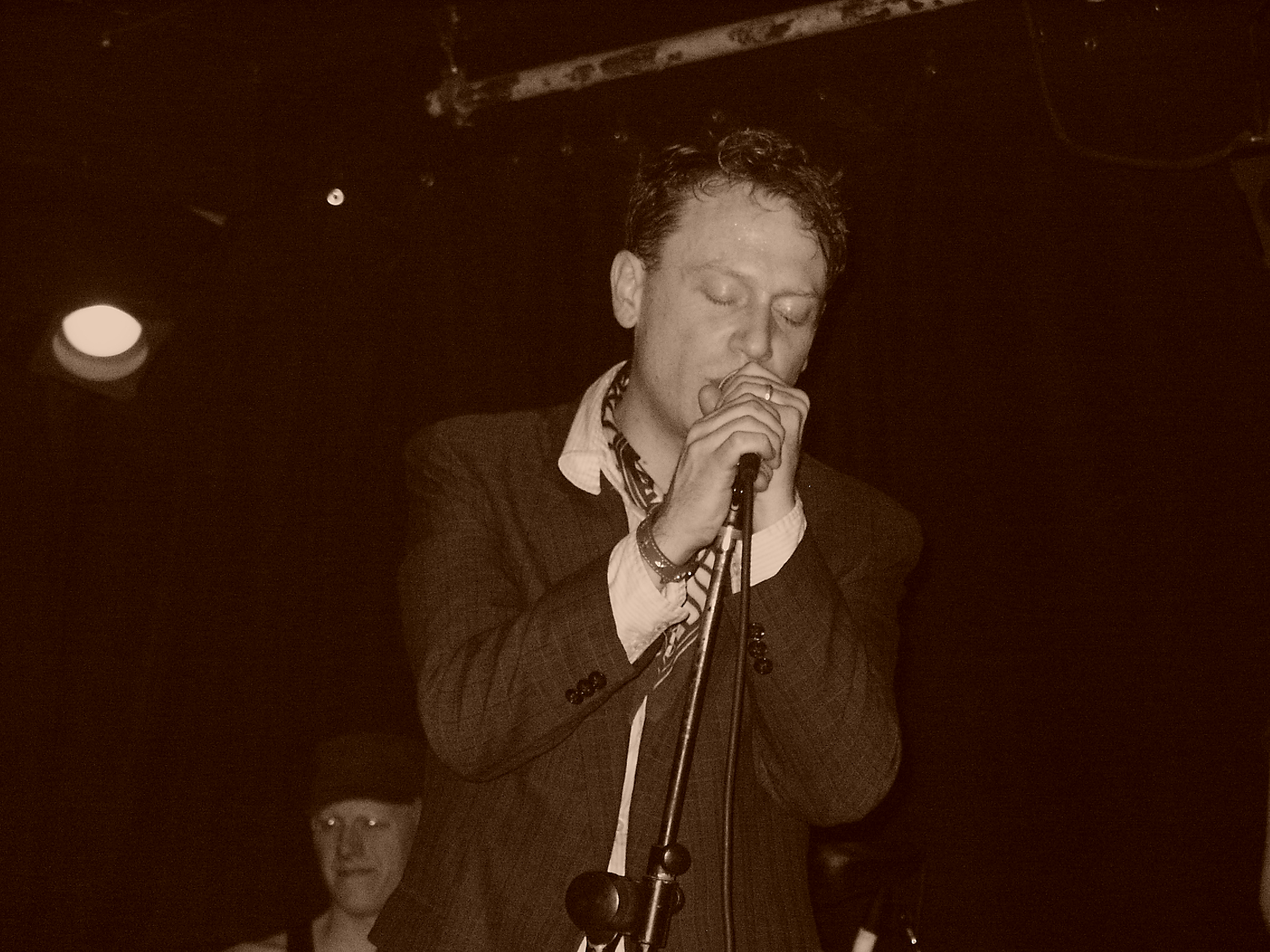 Torquil Campbell performing at The Empty Bottle in Chicago, 2005 as part of Stars